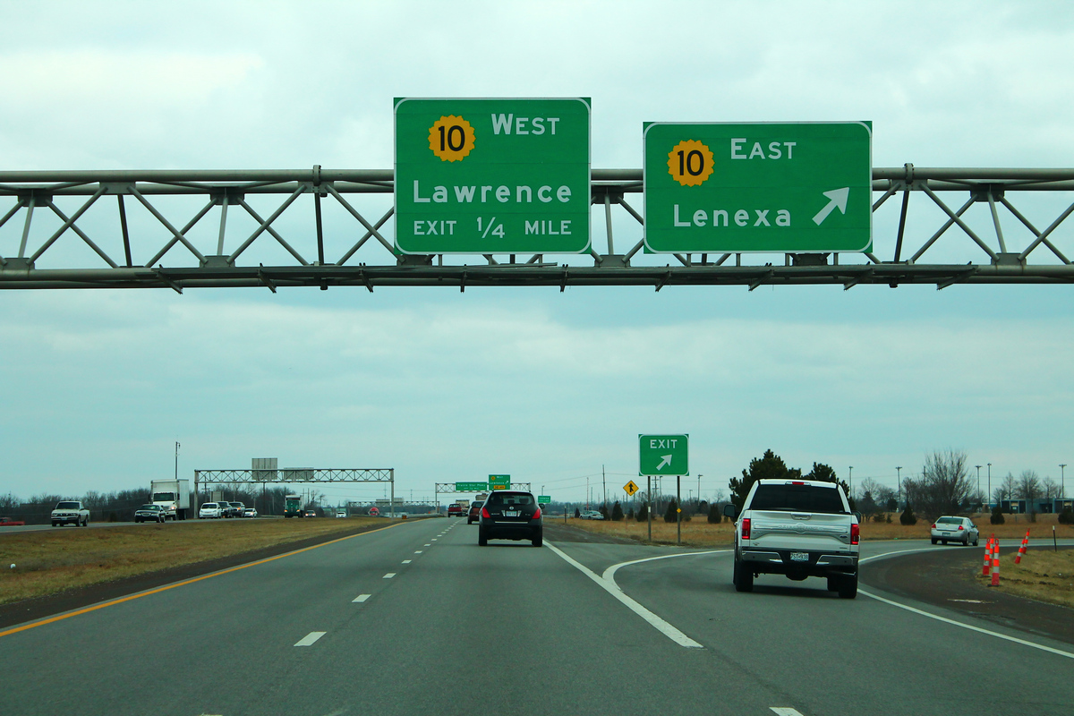 K-7 (Kansas highway) northbound at junction with K-10